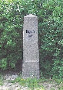 The monument is situated in Litauen in honour to Ludwig Hagen (1829 - 1892), who was a well known german water-engineer